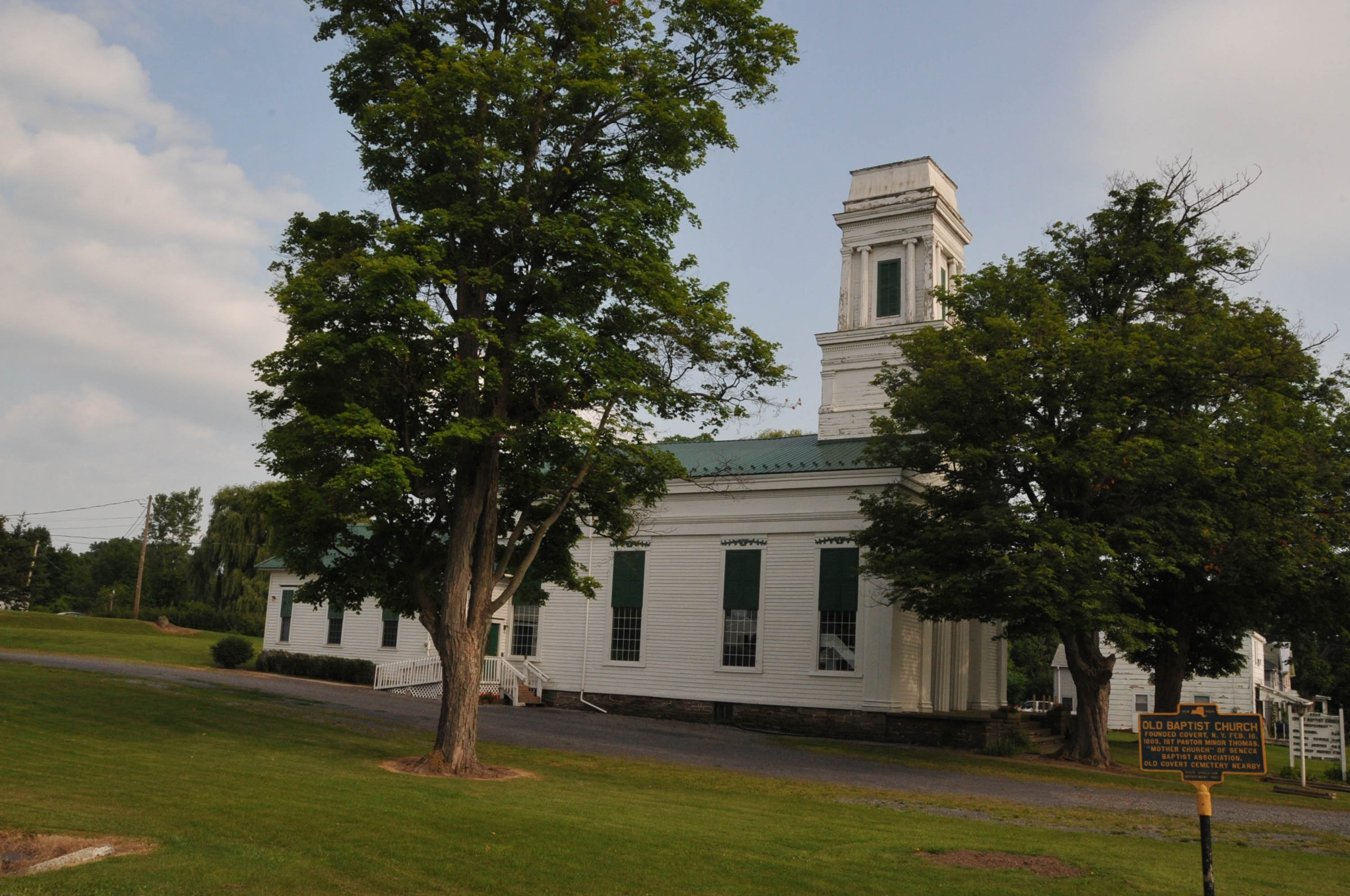 OLD BAPTIST CHURCH FOUNDED IN 1803; BECAME THE “MOTHER CHURCH” OF SENECA BAPTIST ASSOCIATION